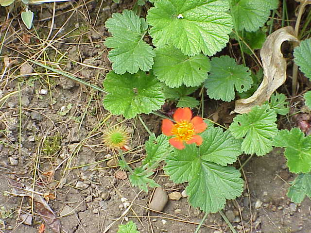 Species: Geum coccineum Family: Rosaceae Image No. 3